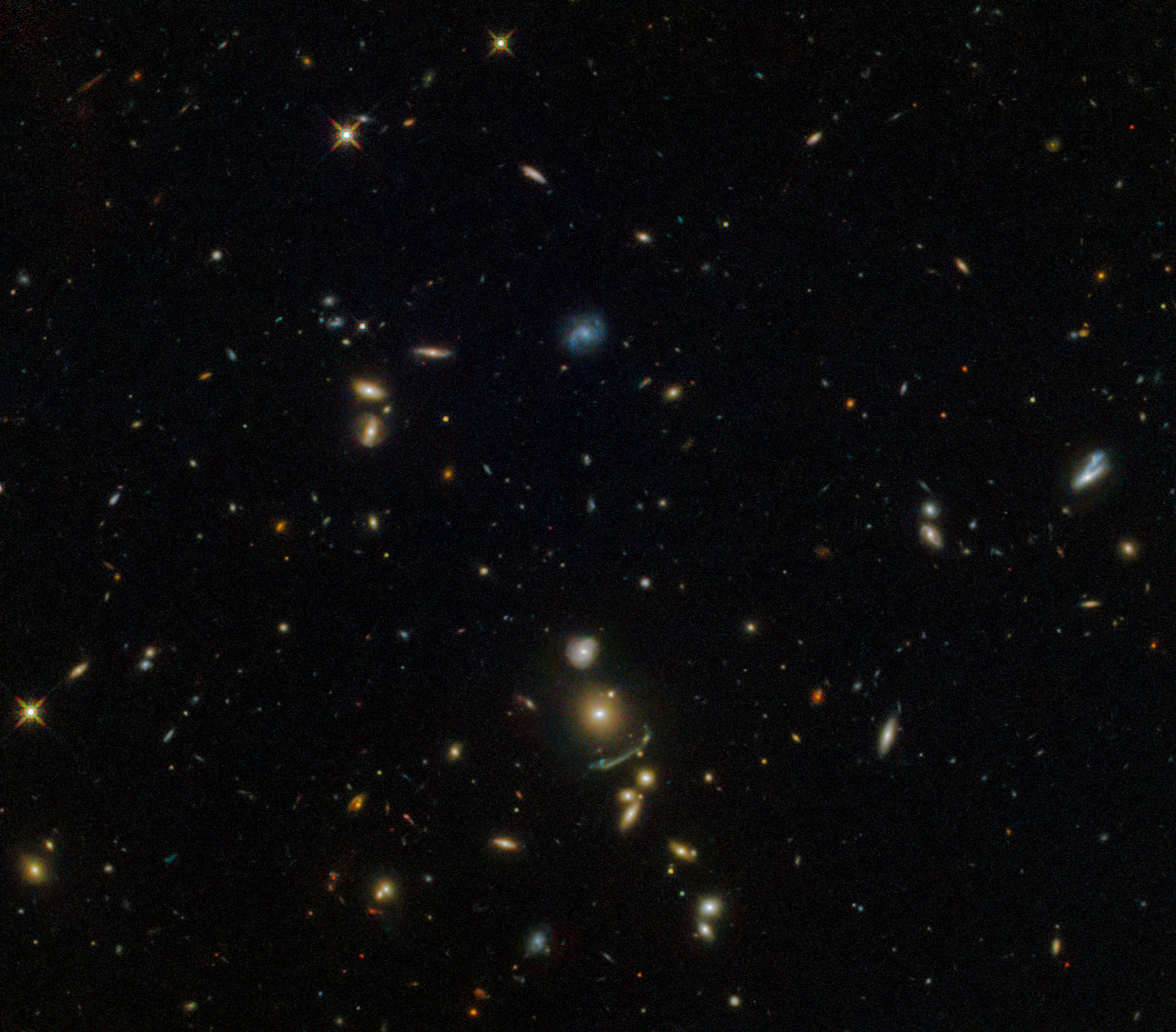 This NASA/ESA Hubble Space Telescope image shows a cluster of hundreds of galaxies located about 7.5 billion light-years from Earth. The brightest galaxy within this cluster named SDSS J1156+1911 and known as the Brightest Cluster Galaxy (BCG), is visible in the lower middle of the frame. It was discovered by the Sloan Giant Arcs Survey which studied data maps covering huge parts of the sky from the Sloan Digital Sky Survey: it found more than 70 galaxies that look to be significantly affected by a cosmic phenomenon known as gravitational lensing. Gravitational lensing is one of the predictions of Albert Einstein's General Theory of Relativity. The mass contained within a galaxy is so immense that it can actually wrap and bend the very fabric of its surroundings (known as spacetime), forcing the light to travel along curved paths. As a result, the image of a more distant galaxy appears distorted and amplified to an observer, as the light from it has been bent around the intervening galaxy. This effect can be very useful in astronomy, allowing astronomers to see galaxies that are either obscured or too distant for us to be otherwise detected by our current instruments. Galaxy clusters are giant structures containing hundreds to thousands of galaxies with masses of about over one million billion times the mass of the Sun! SDSS J1156+1911 is only roughly 600 billion times the mass of the Sun, making it less massive than the average galaxy. However, it is massive enough to produce the fuzzy greenish streak seen just below the brightest galaxy — the lensed image of a more distant galaxy.